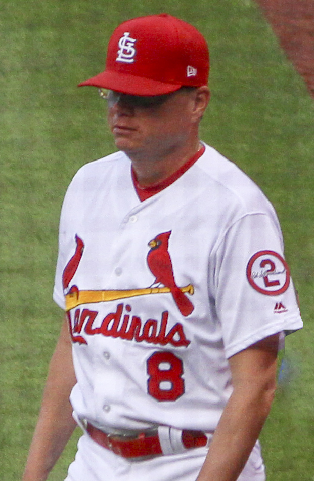 Cardinals skipper Mike Shildt in 2018.